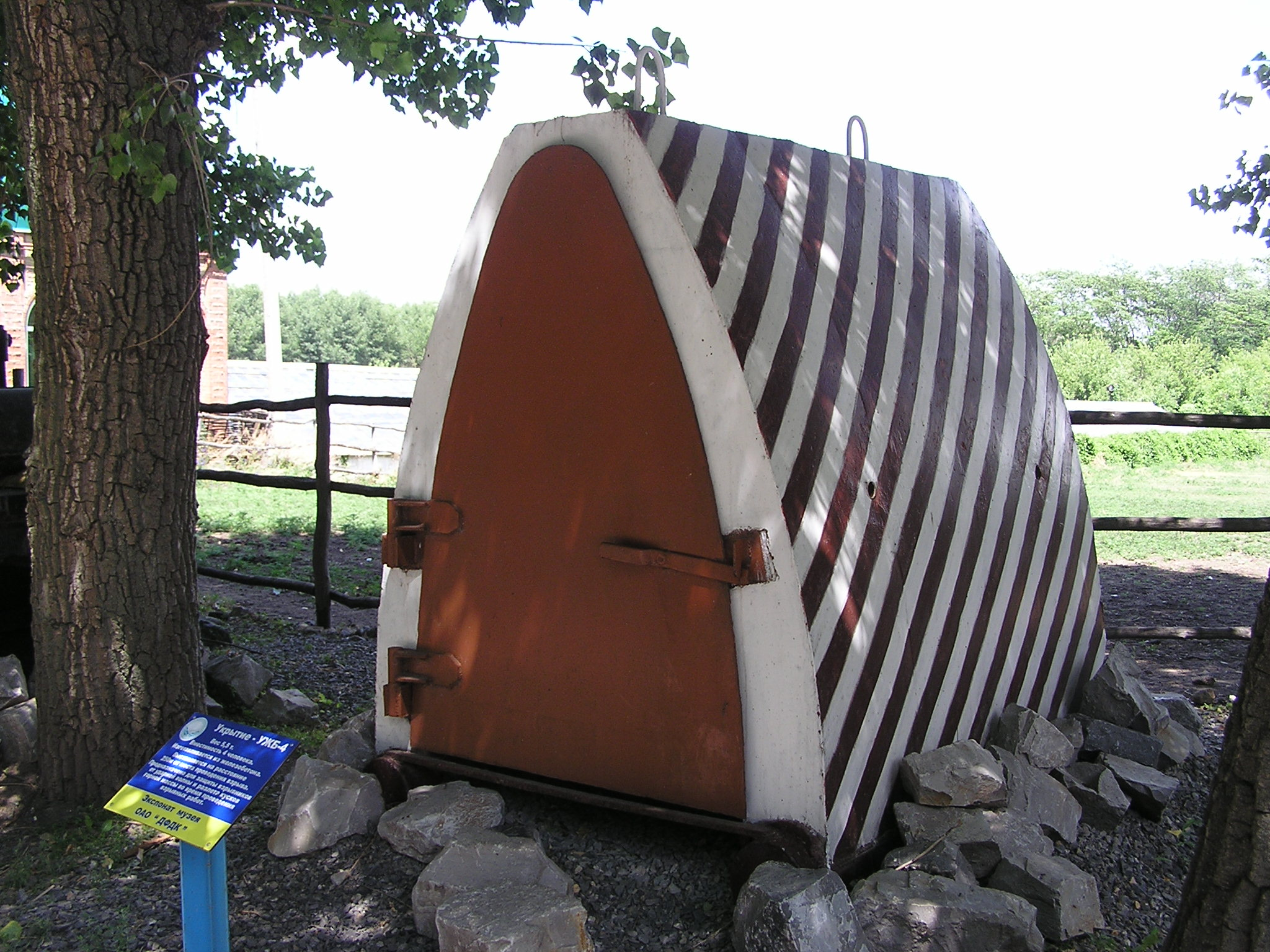 UZhB-4 explosive shelter, at Museum of Dokuchaevsk flux-dolomite сombined plant